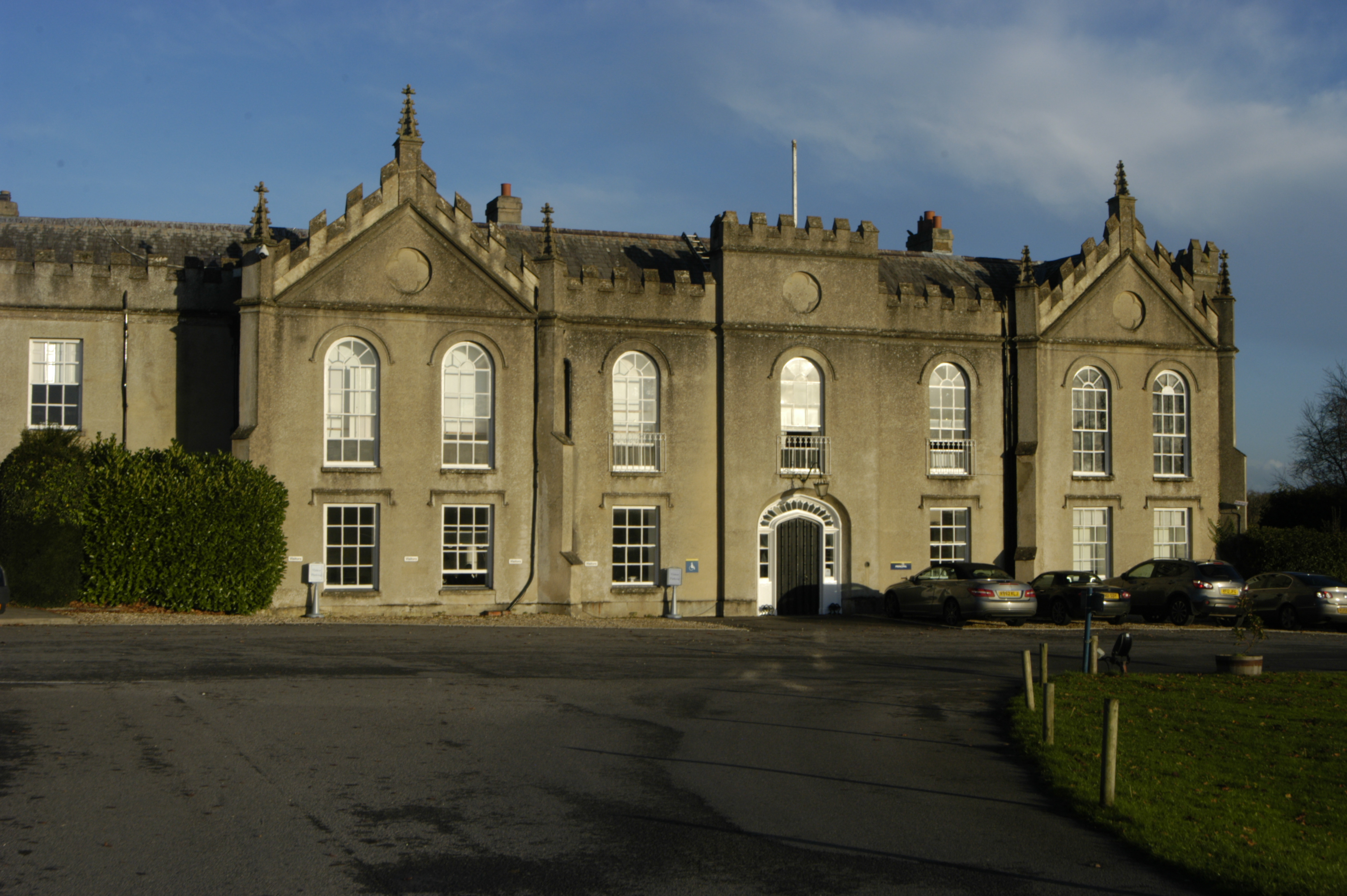 My photo (by me R. de Salis, Rodolph (talk) 22:28, 21 November 2014 (UTC)) of Sandleford Priory (west front), Sandleford, Greenham, Newbury, Berkshire, England.